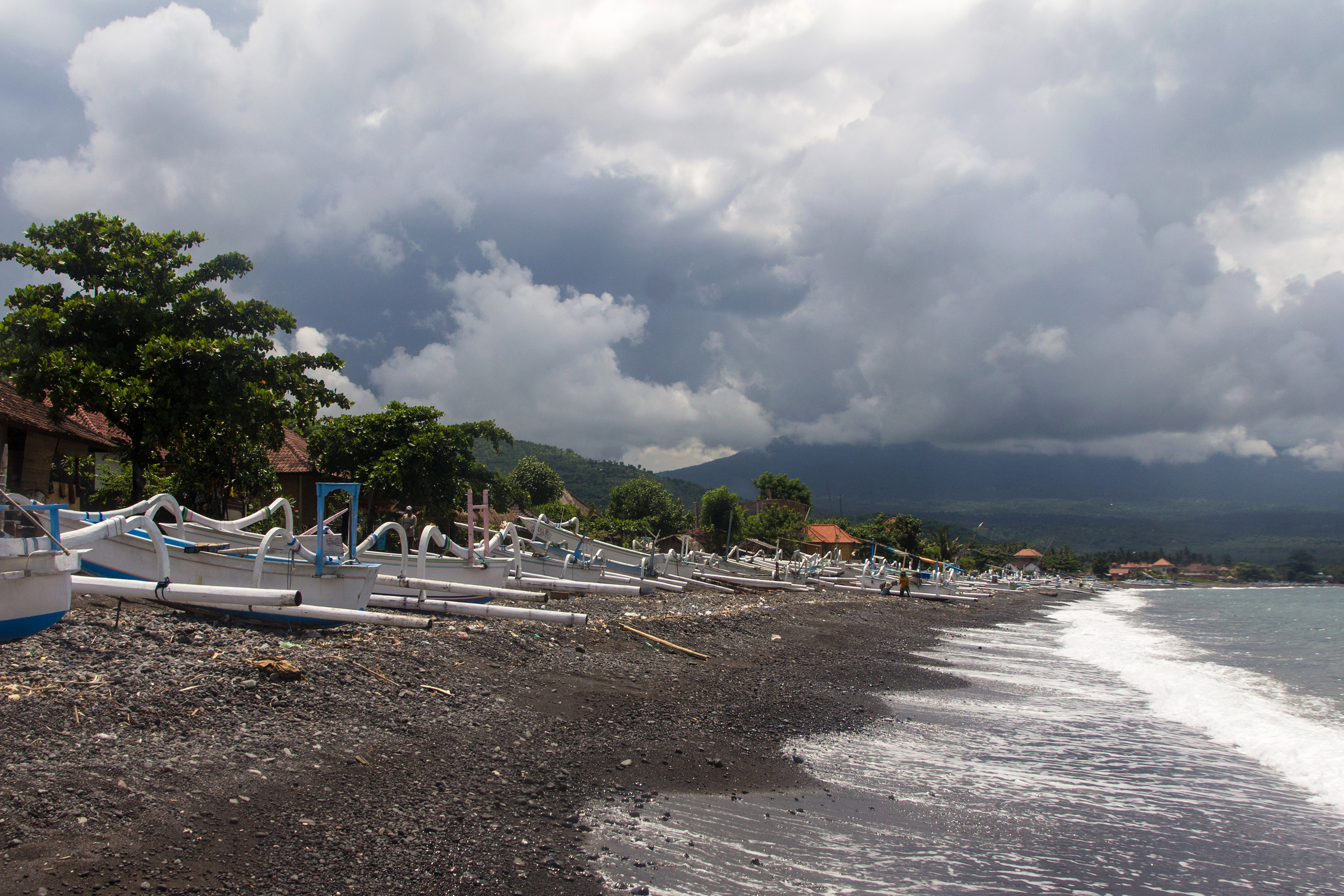 Amed Beach in February